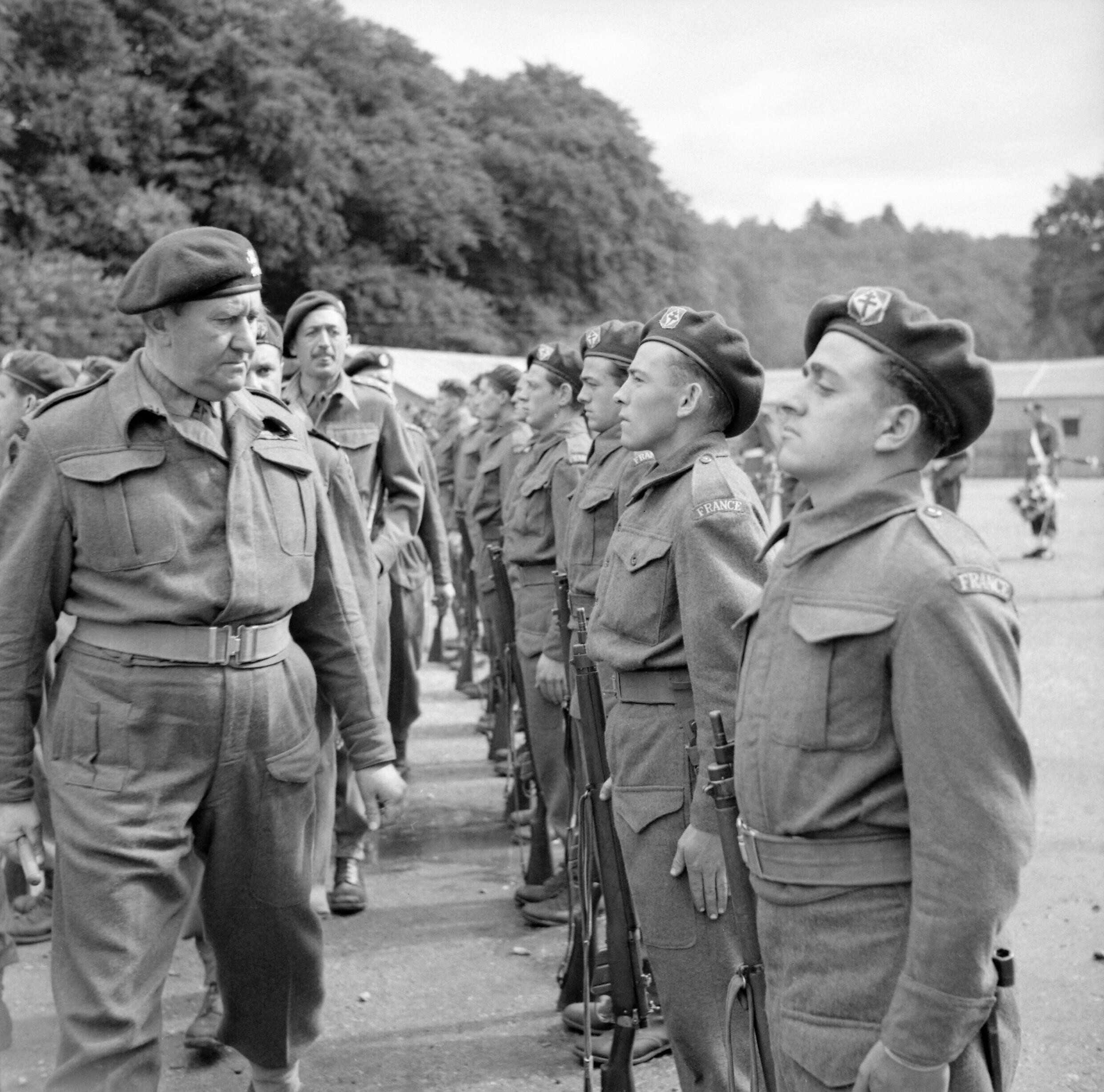 Lieutenant Colonel Charles Vaughan, Commandant Commando Depot, inspecting French troops during a parade to mark Bastille Day at Achnacarry in Scotland, 17 July 1943. French commando troops undergoing training at Achnacarry House in Scotland: Lieutenant Colonel Charles Vaughan, Commandant, Commando Depot, inspecting French troops during a parade and march past as part of Bastille Day celebrations.